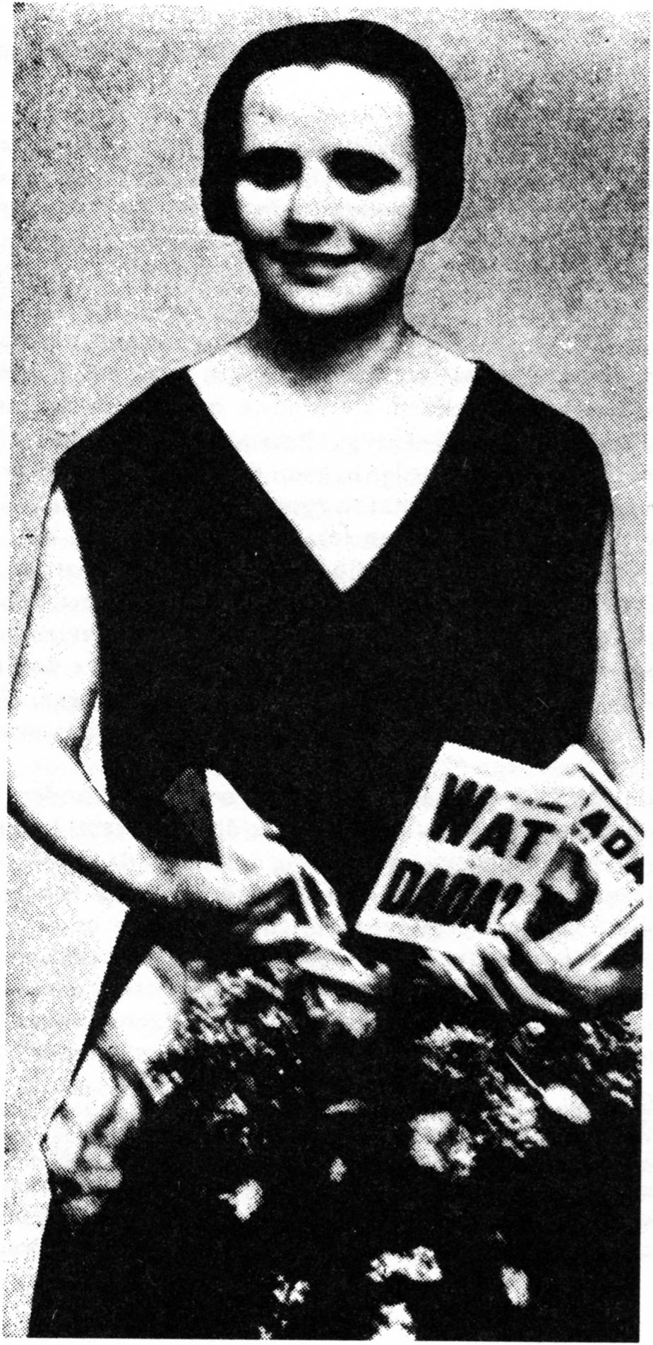 Nelly van Doesburg, the pianist, holding a copy of ‘What is Dada?’. Portrait of Nelly van Doesburg at a Dada performance in Amsterdam. Photograph accompanying L.J. Jordaan's article ‘Dada in Amsterdam’, in Het Leven (23 january 1923).